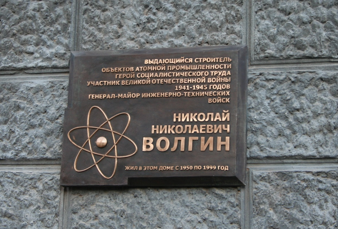 Volgin Memorial Plaque